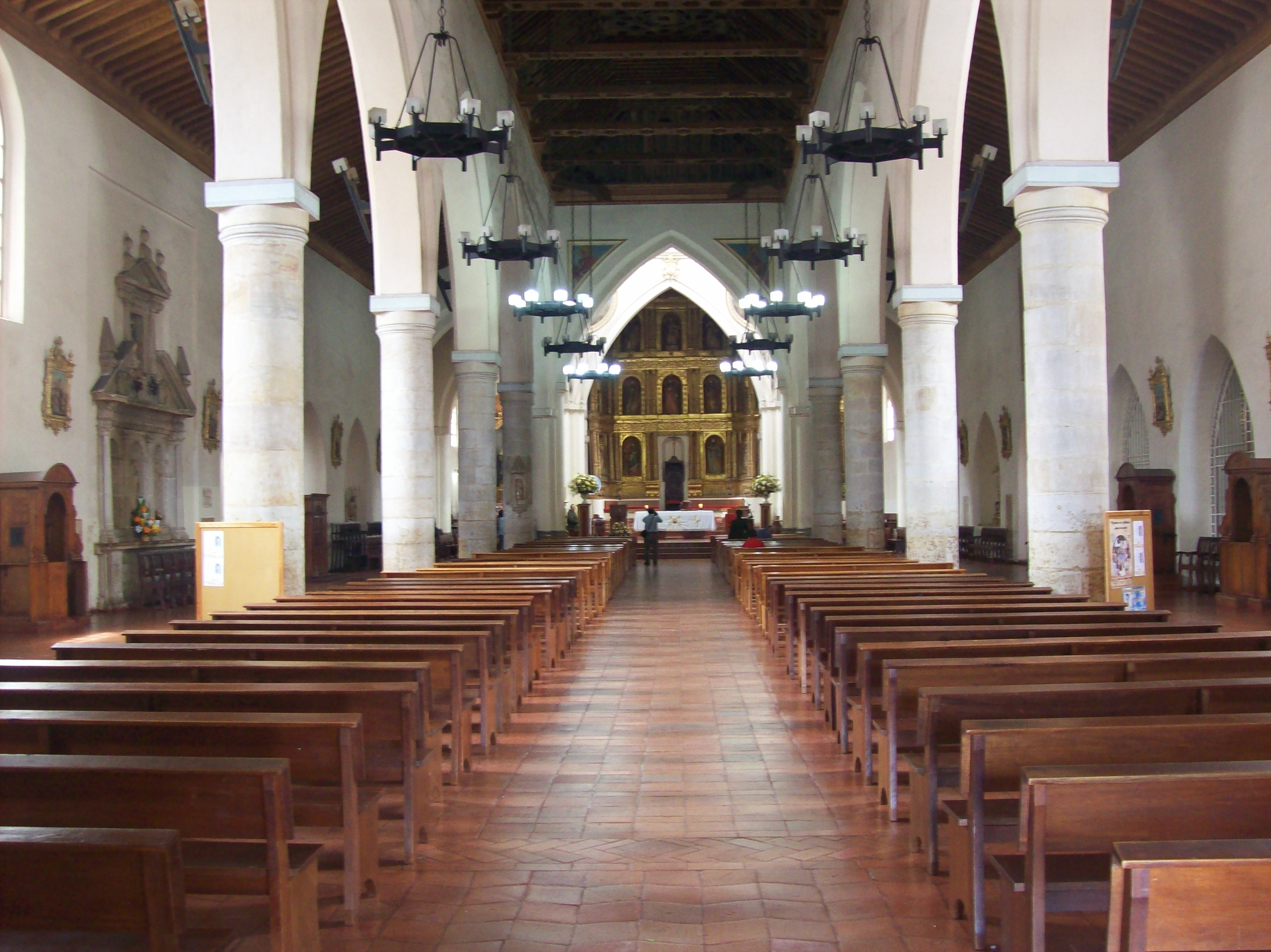 Cathedral of Tunja (Colombia)